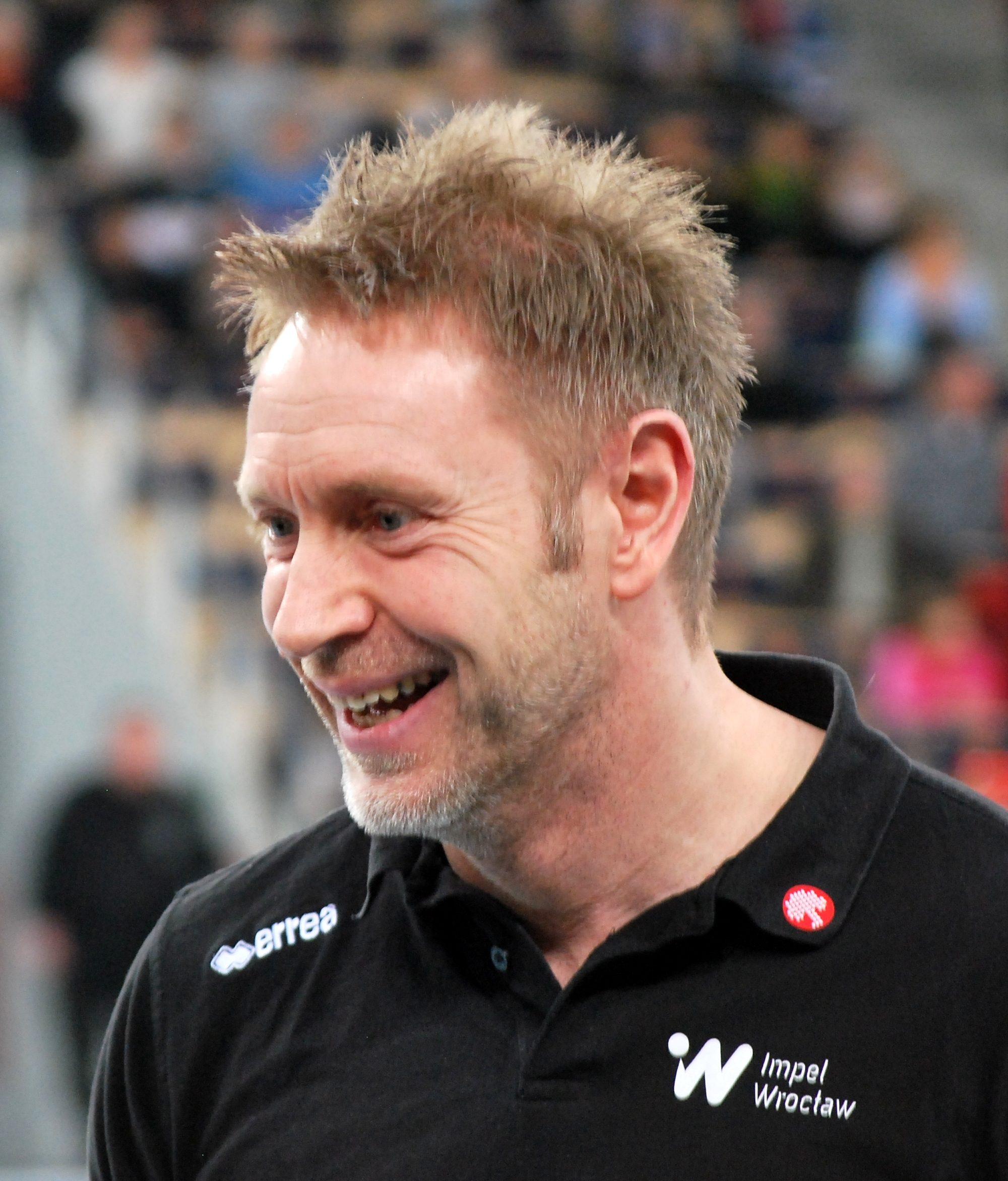 Tore Aleksandersen, volleyball coach from Norway